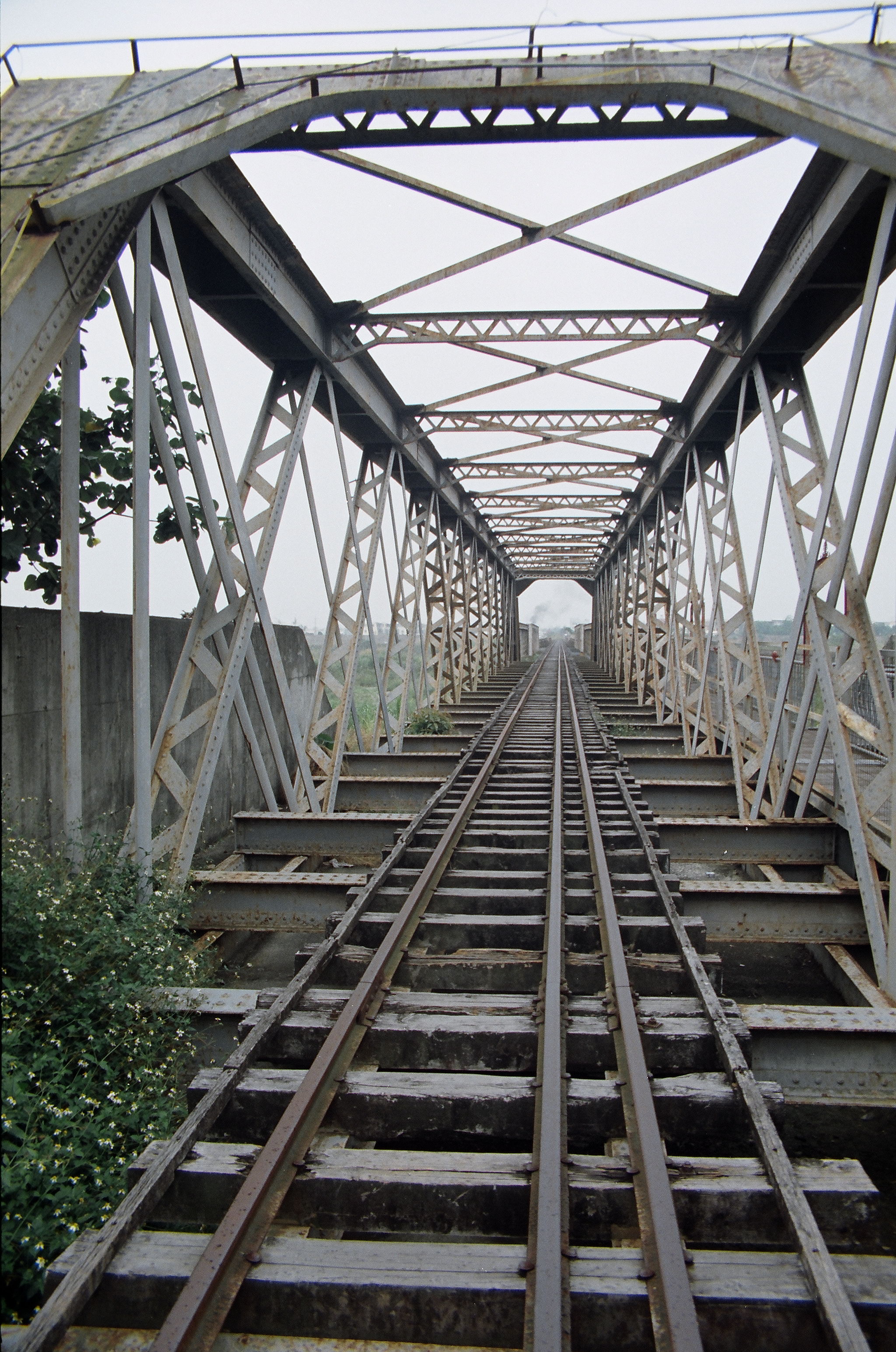 Taiwan Sugar Railway Huwei Dual gauge track bridge